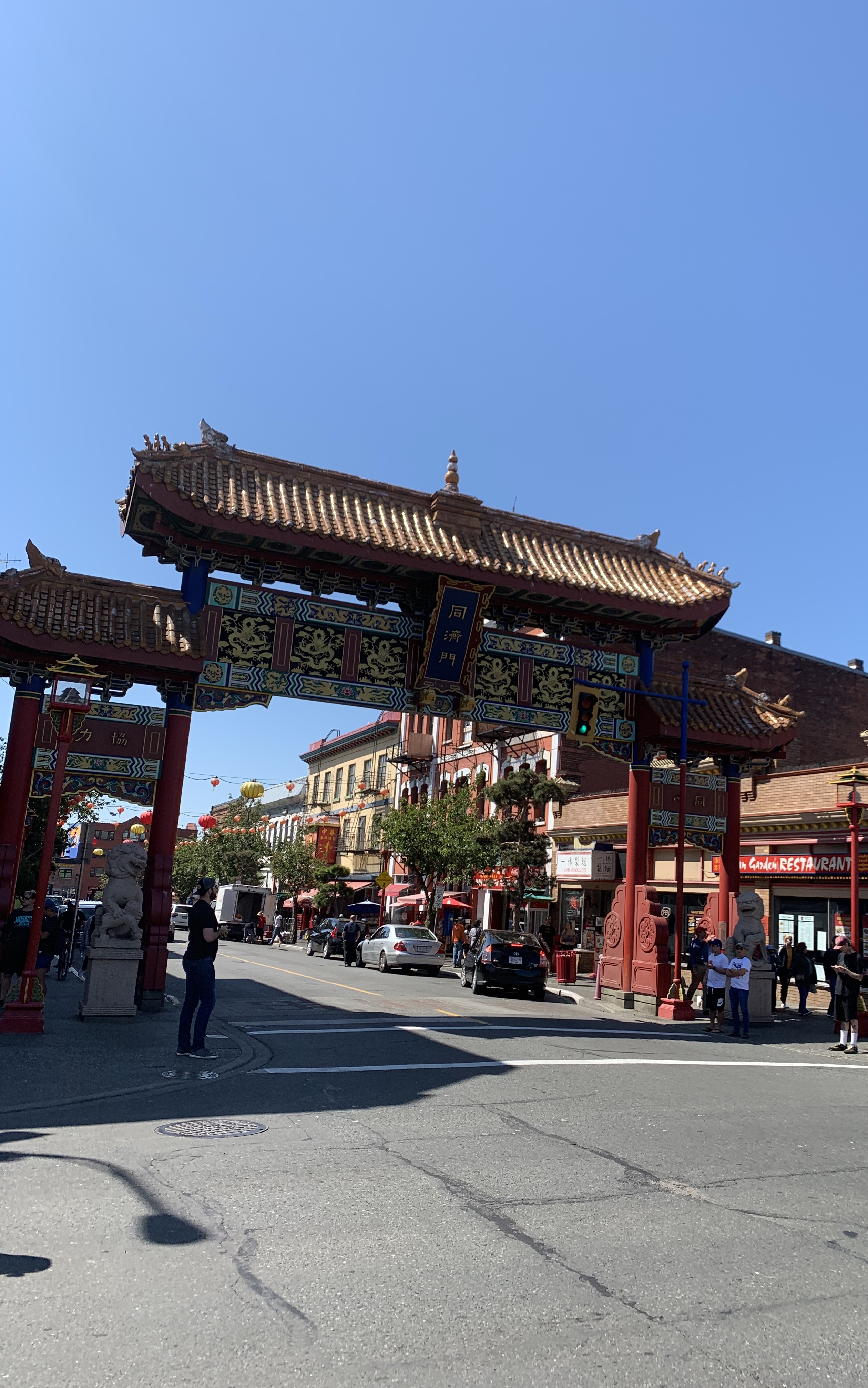 Shooting at August 8, 14:44